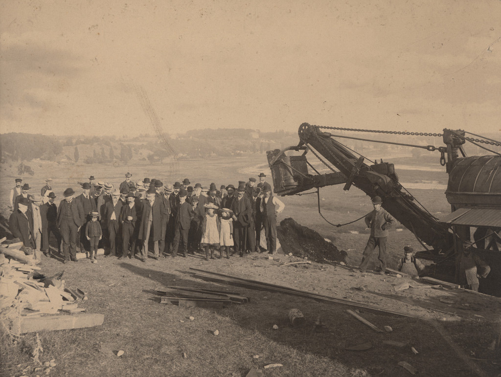 Photographer: Reuben R. Sallows (1855 - 1937) Description: Group portrait of men standing in distance, facing front. Most dressed in dark suits, coats, wearing hats. Two small girls in pinafores & straw hats stand in front row. Steam shovel on right, iron rails scattered in foreground; Maitland River flats and town of Goderich in background. Sallows imprint on bottom right of matte. Title written across bottom: Turning First Sod, Goderich and Guelph Railway, September 12, 1904 Object ID : 0471-rrs-ogohc-ph View additional photographs by Sallows that are held in other collections at the Reuben R. Sallows Digital Library. Order a higher-quality version of this item by contacting the Huron County Museum (fee applies).